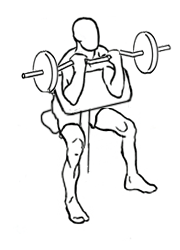 an exercise of biceps